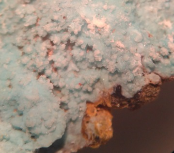 Baileychlore (pale blue) from Prullans (Cerdanya, Catalonia)